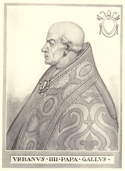 This illustration is from The Lives and Times of the Popes by Chevalier Artaud de Montor, New York: The Catholic Publication Society of America, 1911. It was originally published in 1842.